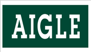 Historical logo of Aigle